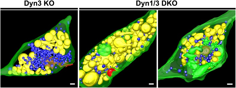 Colors are as follows: PM, including PM anchored CCPs (green), bulk endosomes (yellow), SVs (blue) and the post-synaptic density (red). Scale bar: 100 nm.